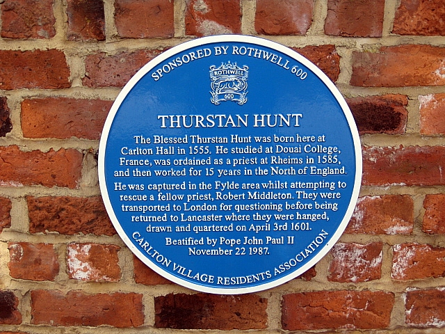 Thurstan Hunt plaque. This blue plaque has recently been affixed to the wall by the entrance to Carlton Hall, to commemorate one of Carlton's famous sons. See 1316258